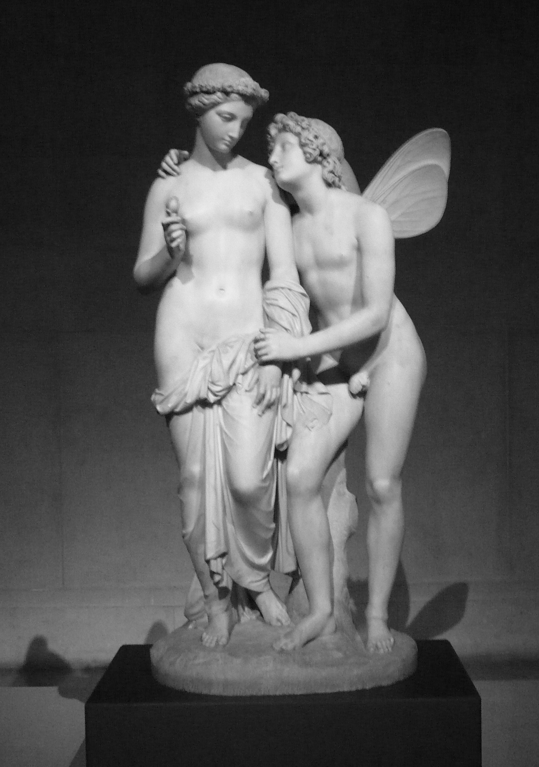 Statues of Flora and Zephyrus - 1834 by Richard James Wyatt.Marble Statue height 160 centimetres.